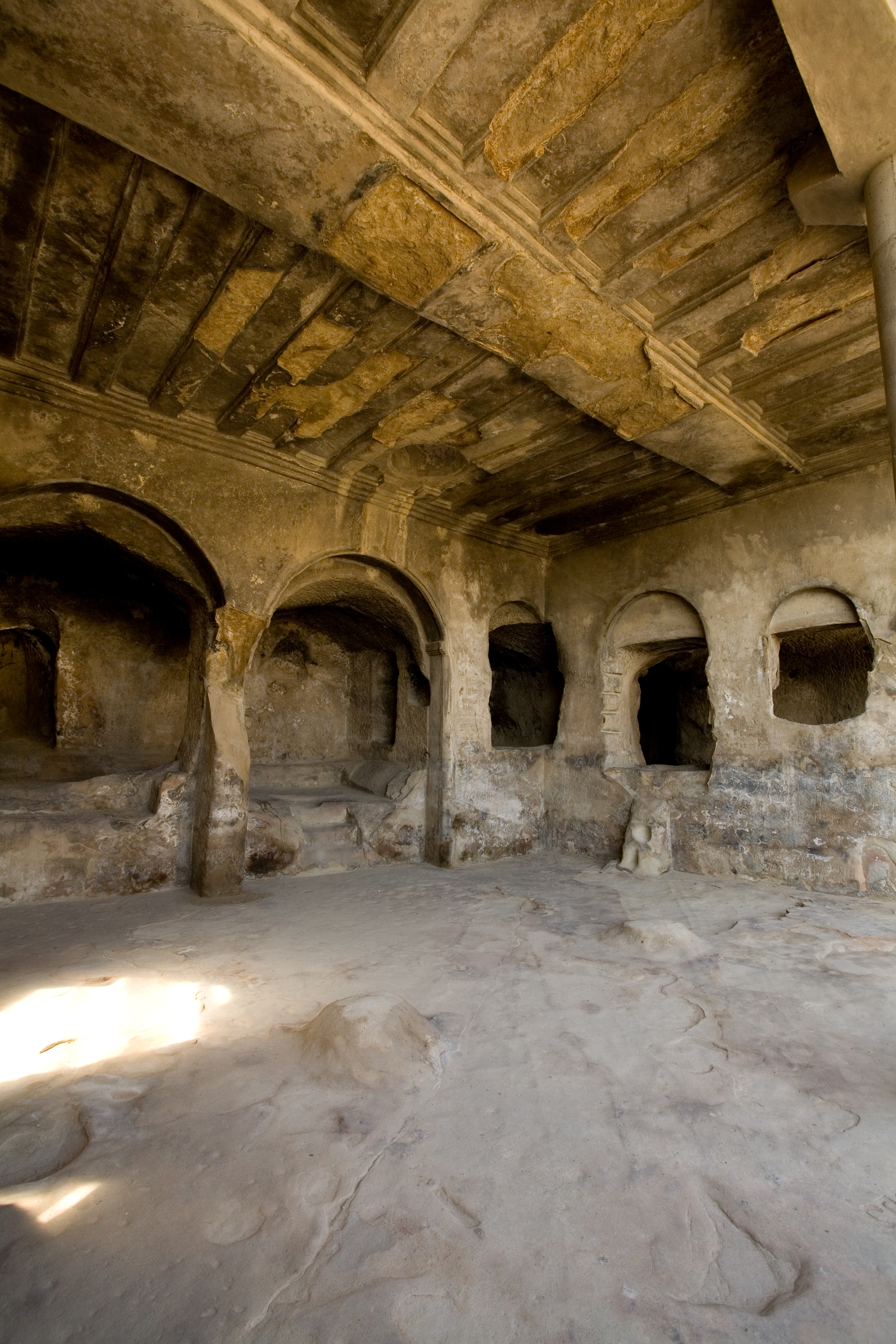 34. Hall of Tamara (Nomenclature and numbering from book Uplistsikhe, Tbilisi, 2005 by T. Sanikidze)